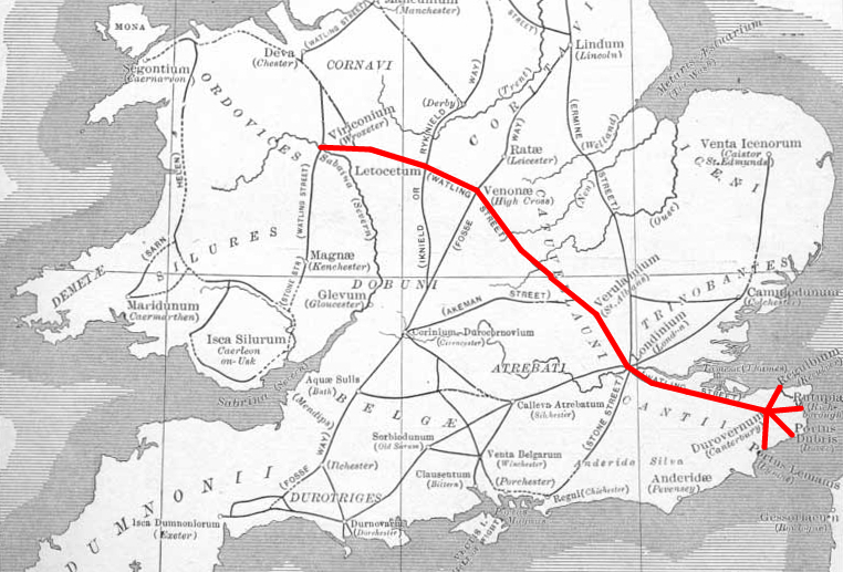 General route of Watling Street overlaid on an outdated map of the Roman road network in Britain